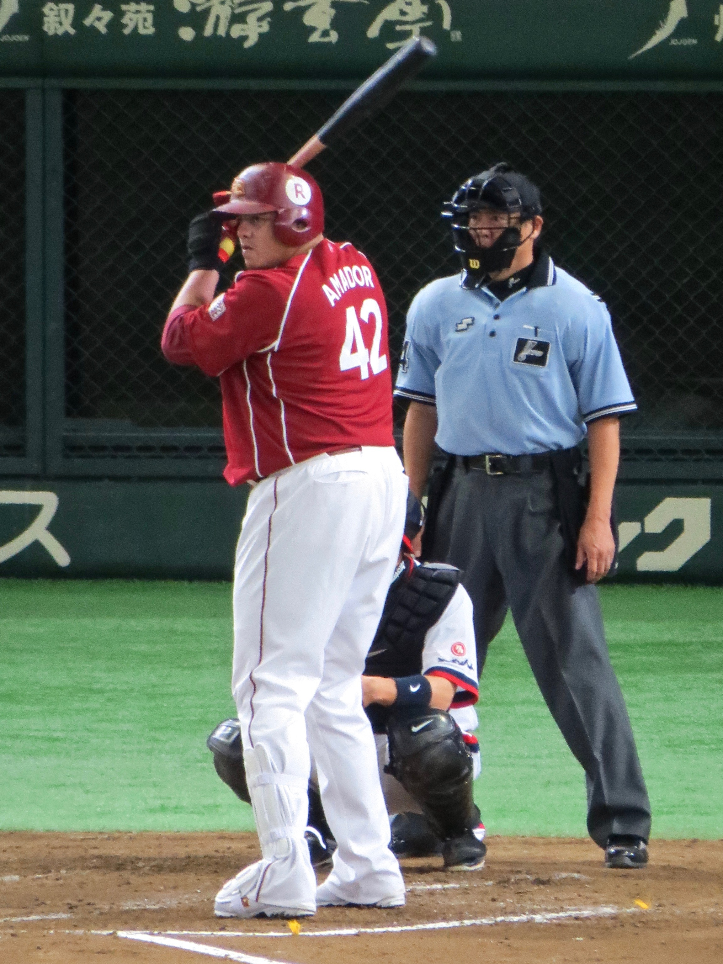 Japhet Amador (left), infielder of the Tohoku Rakuten Golden Eagles, and Kazuhiro Kobayashi, plate umpire, at Tokyo Dome